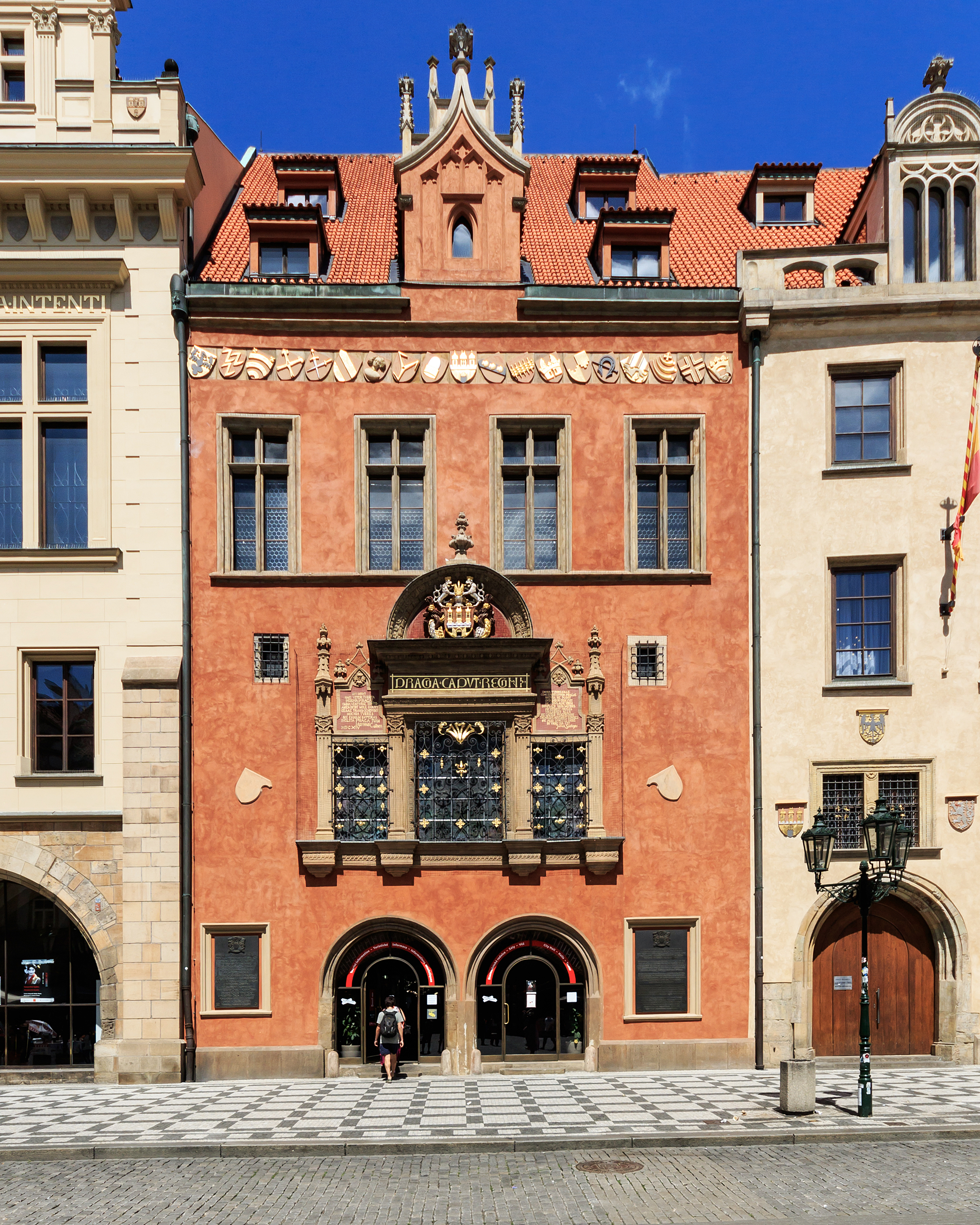 Old Town Hall in Prague (Czech Republic)